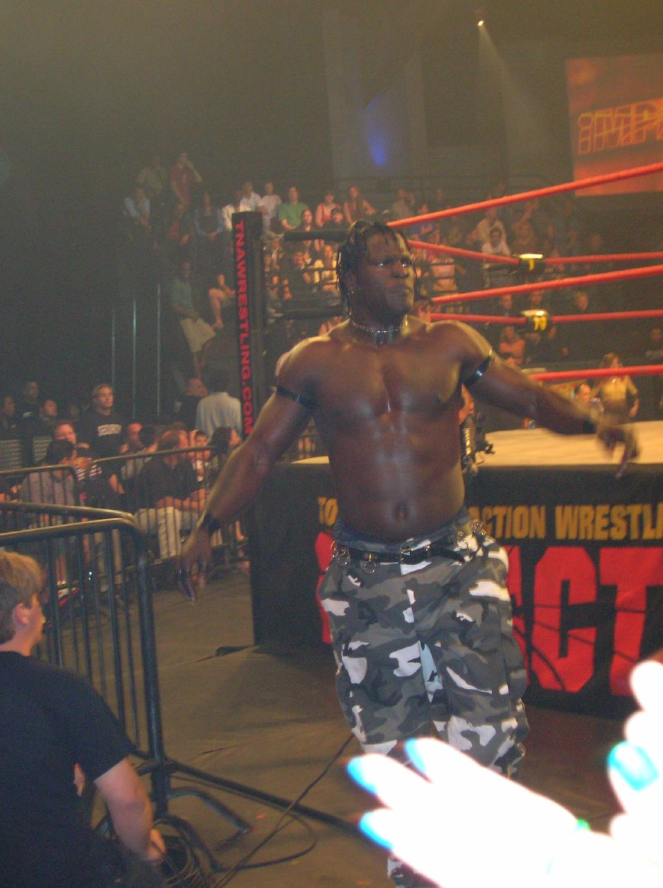 Killings in TNA. Ron Killings The Other Half of Team Pacman.